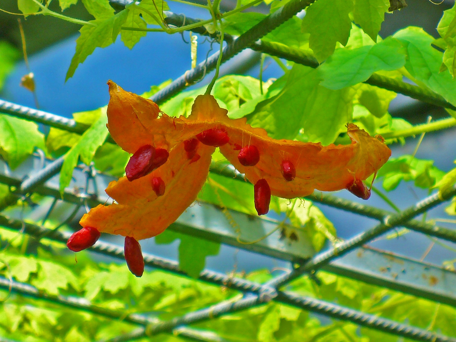 Momordica charantia, Cucurbitaceae, Bitter Melon, Bitter Gourd, fruit, split open. Botanical Garden KIT, Karlsruhe, Germany.